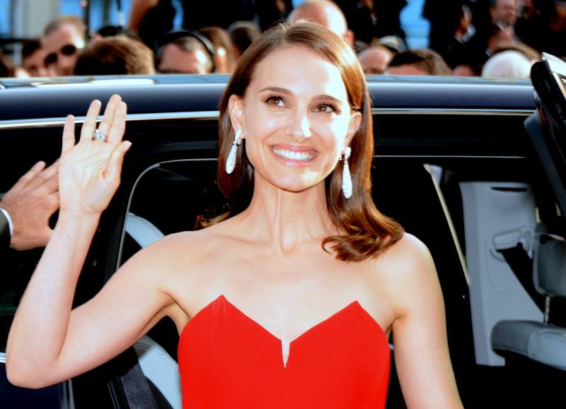 Natalie Portman at the Cannes film festival